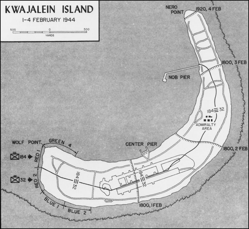 Map of Landings on the Kwajalein Island in WW2